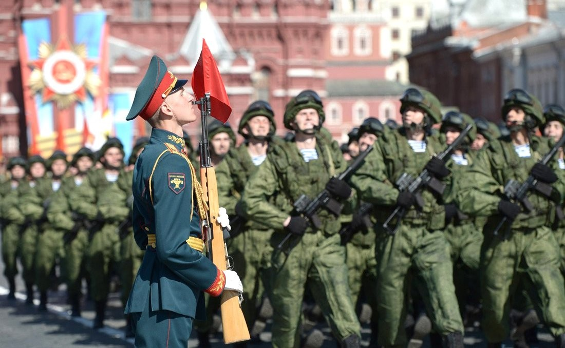 Parade of Victory in the Great Patriotic War.